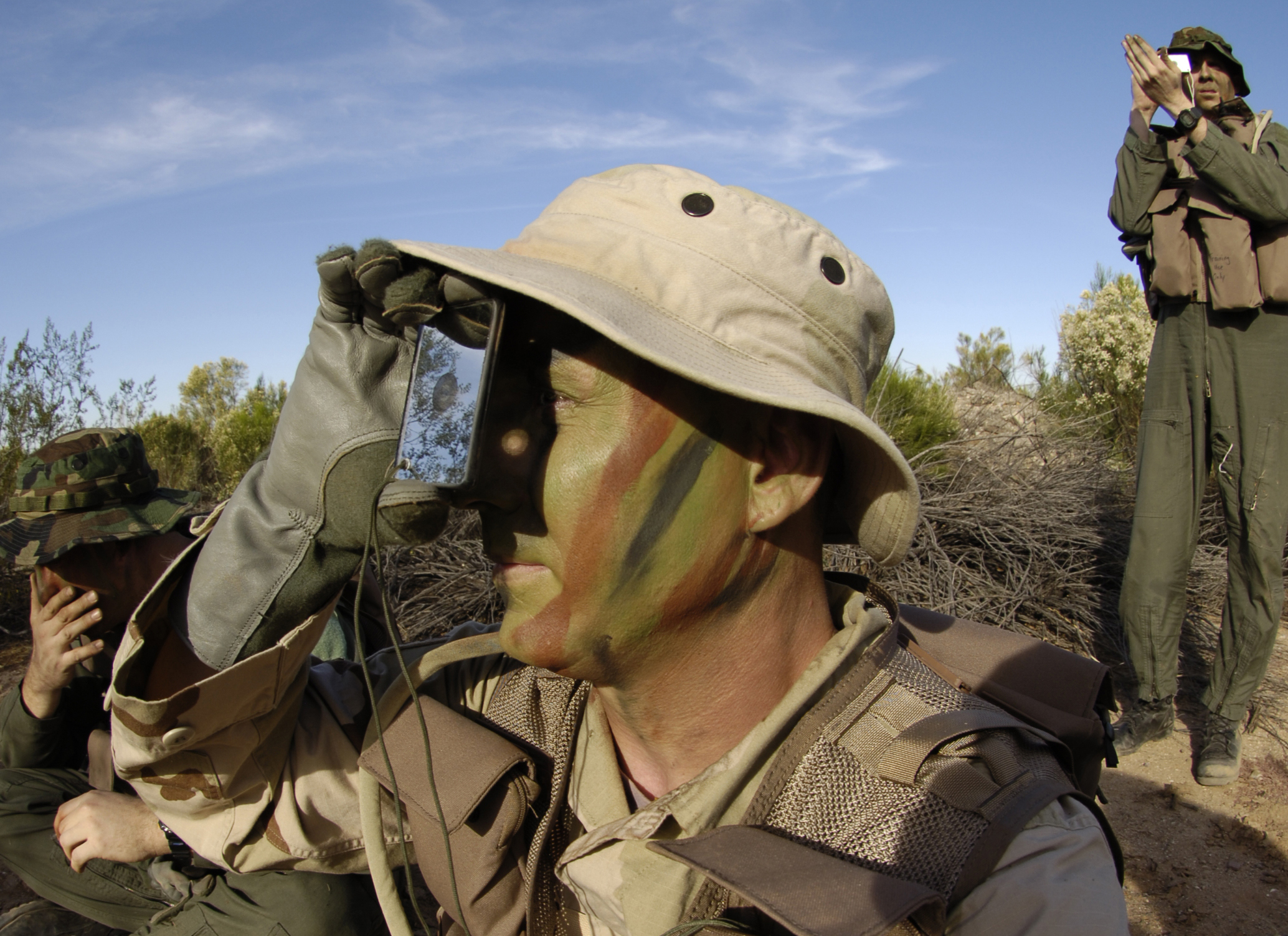 Per the US Govt. Website: "DAVIS-MONTHAN AIR FORCE BASE, Ariz. (AFPN) -- Staff Sgt. John Waters uses a signal mirror during a combat survival training course. Sergeant Waters is with the 43rd Electronic Combat Squadron. (U.S. Air Force photo by Airman 1st Class Jesse Shipps)" The signal mirror used here is the USAF issue 3"x5" glass Mil. Std. MIL-M-18371E Type II signal mirror, using a retroreflective mesh "reflex sight" aimer. The Mil Std can be read online at: One identifying characteristic of the Mil Std signal mirrors is that the edges of the mirror are painted flat black, as is clearly visible here. "Reflex sight" signal mirrors work by projecting a bright round fuzzy dot in the direction of the column of light reflected by the mirror. This dot is only visible when looking through the aimer - it is produced by a series of two reflections: the first is that the retroreflective material in the aimer reflects sunlight back towards the sun, the second is that some of the retroreflective light reflects off the glass to air interface back through the mirror into the user's eye in the opposite direction of the main reflected ray from the mirror. This type of mesh aimer was described and patented by Richard S. Hunter, in his patent 2,557,108, filed Dec. 4, 1946, issued June 19, 1951, and available online here